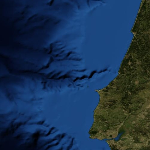 Coast of Central Portugal, showing the Nazaré Canyon. At 160 km, it's the longest marine canyon in Europe. Image from the Blue Marble set, December 2004.